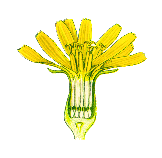 Lactuca virosa flower illustration